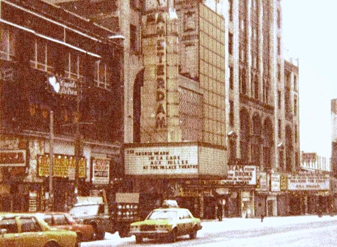 Looking west at New Amsterdam Theater, 42nd St., New York, before renovation of area